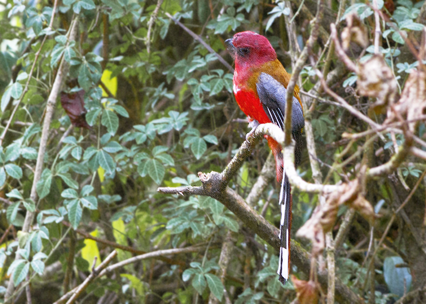 The species Red-headed Trogon had been photographed during the birding tour of GoingWid in Neora Valley National Park in West Bengal, India on 30.04.2016.